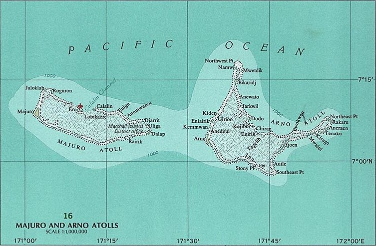 National Atlas of the United States, page "Pacific Outlying Areas", with map insets: Majuro and Arno Atolls